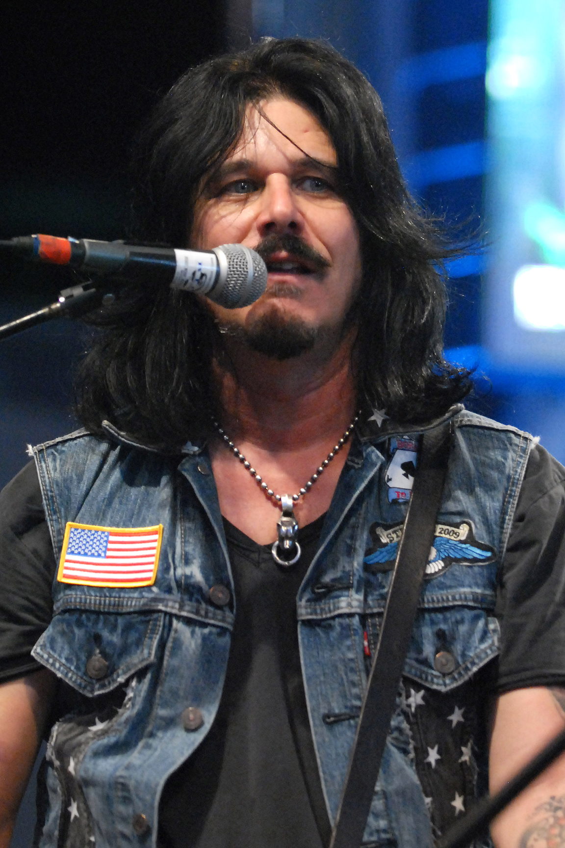 Gilby Clarke, Los Angeles, CA on October 15, 2012 - Photo by Glenn Francis of